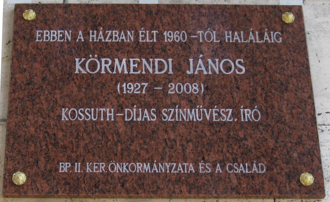 Commemorative plaque of János Körmendi, Budapest District II, Fő Street No 63-65